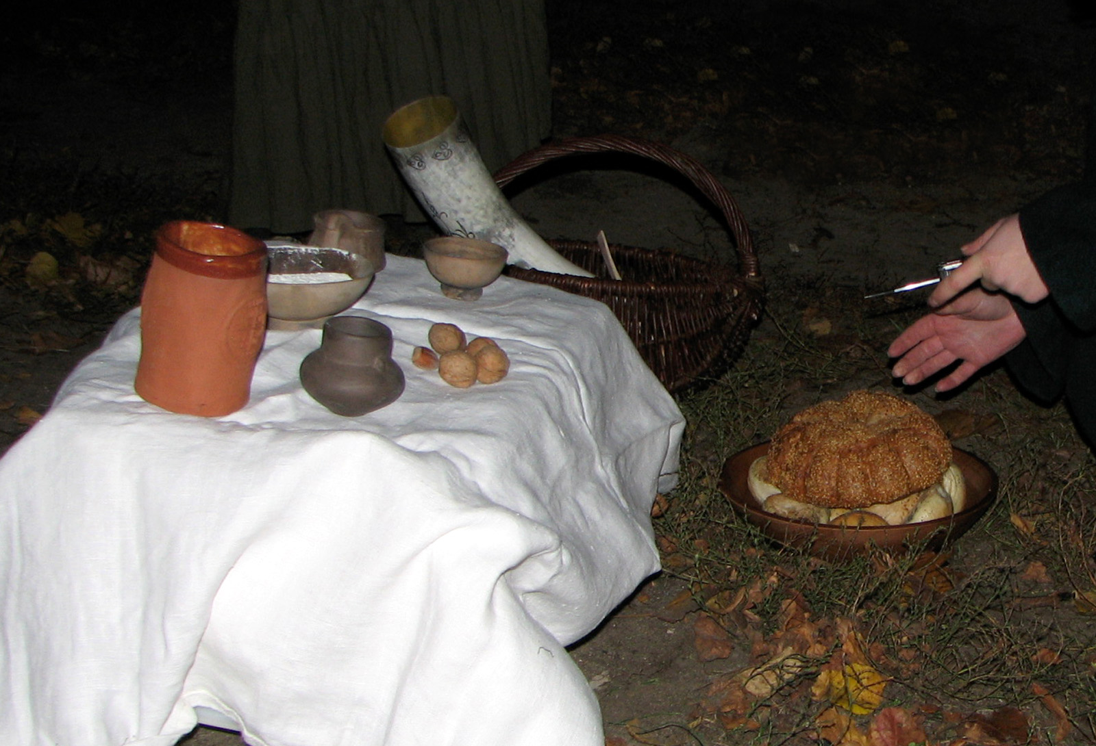 Dziady was an ancient Slavic feast to commemorate the dead - RKP (2008), Pęcice